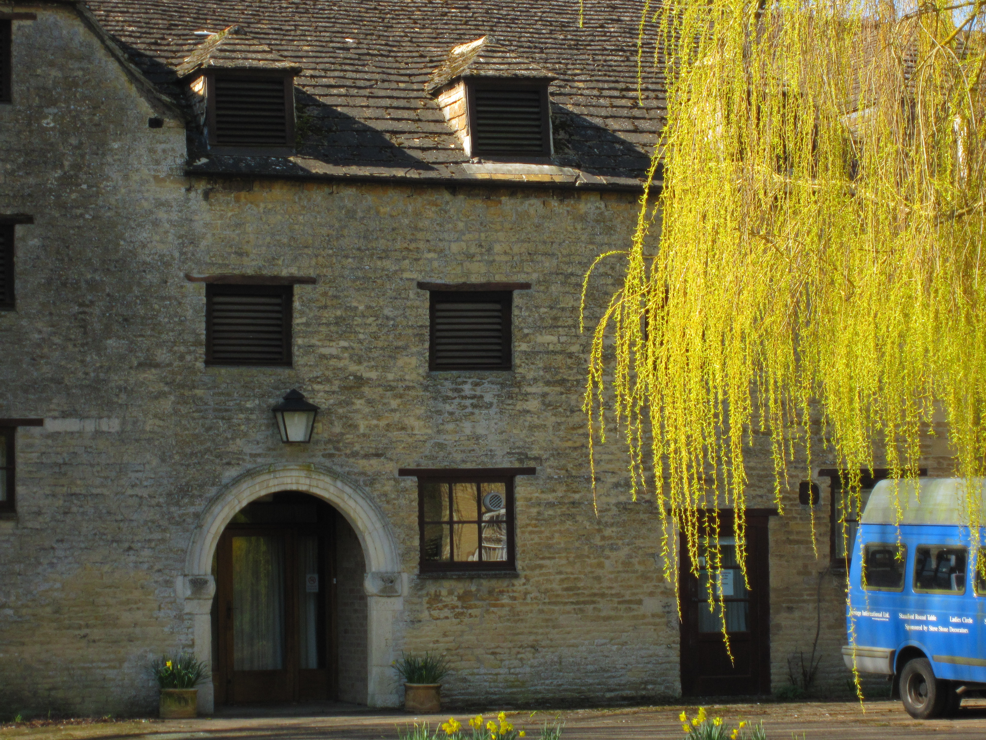 King's Mill Centre, Bishopsgate Corporate Finance Ltd and BCF Equity Partners, Stamford